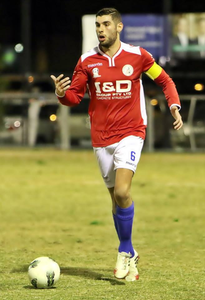 Uskok on the ball with the captain's armband